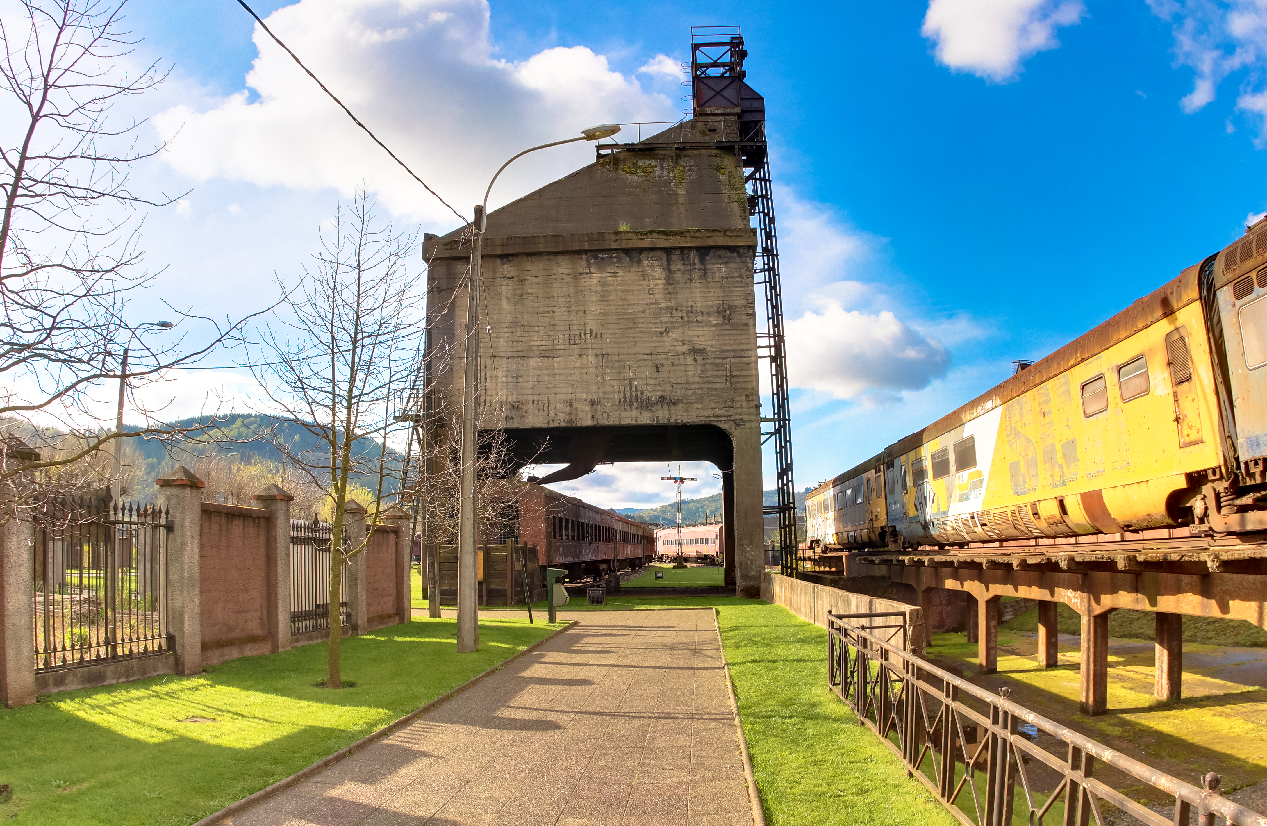 This is a photo of a national monument in Chile: 161